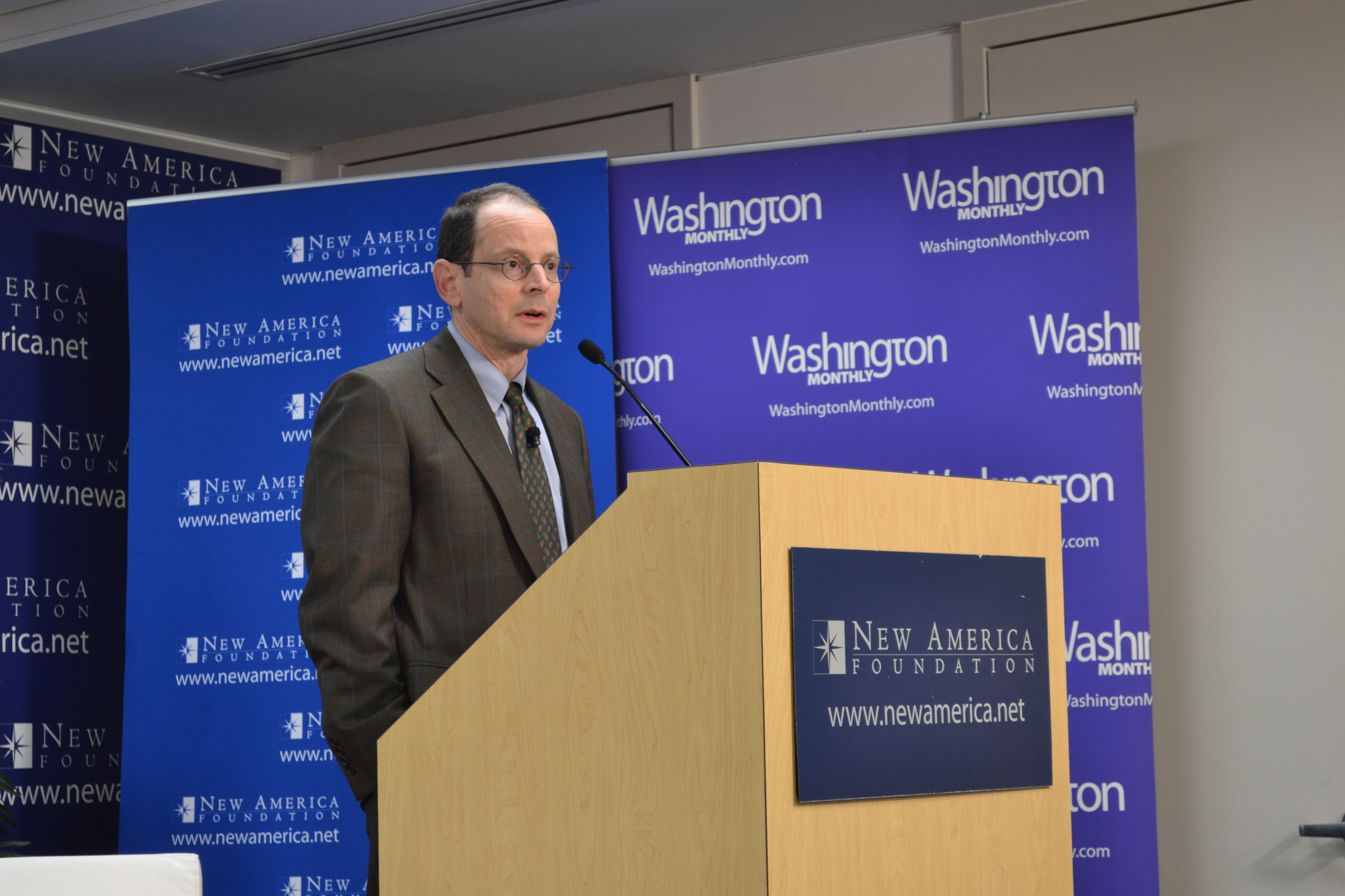 Jonathan Rauch, 2013